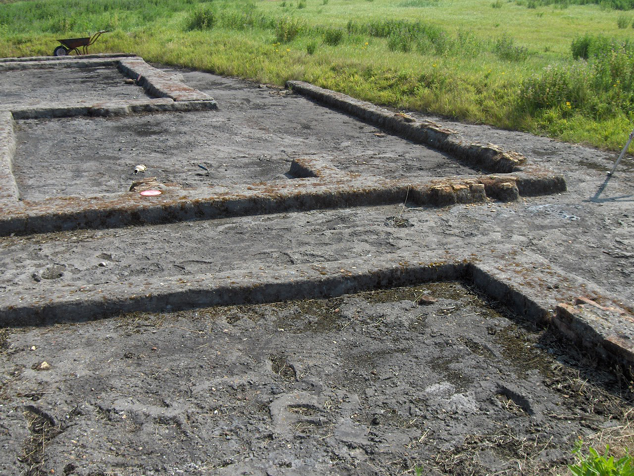 Foundations of fisherman's houses at the archeological site of Walraversijde, ca 1465; Oostende, Belgium